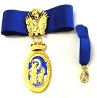 RCST Commander